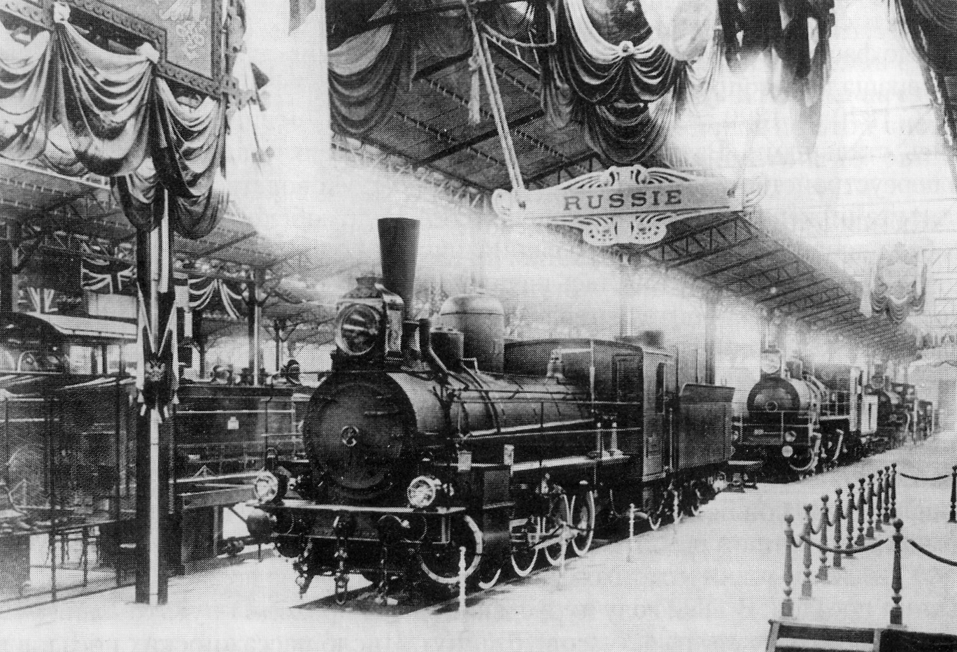 An exhibition of Russian railway equipment. 1900